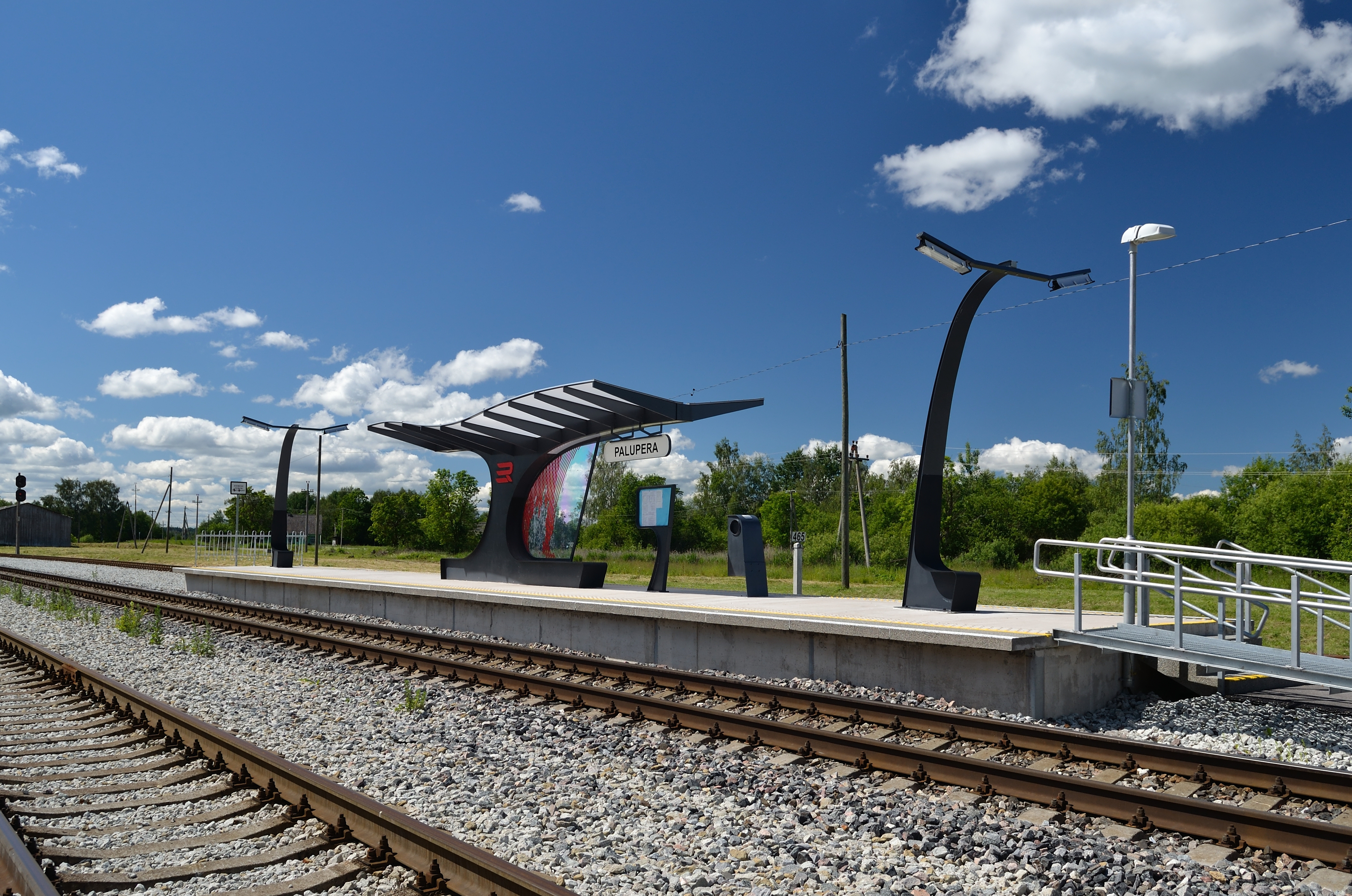 Palupera station platform